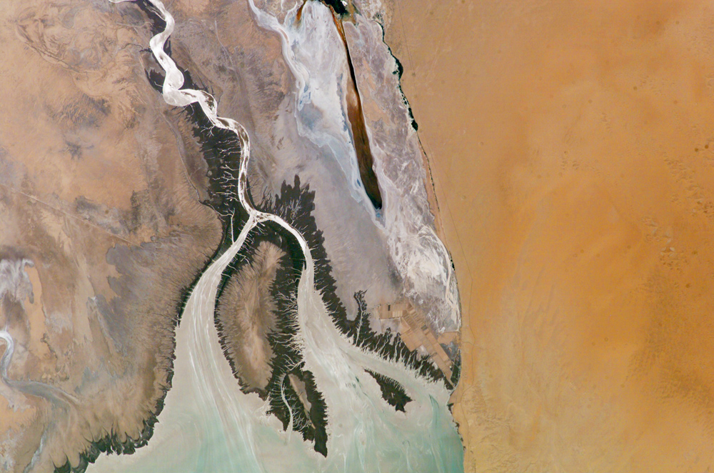 Astronaut's satellite photo of the Colorado River Delta, in state of Sonora, México. White salt flats are easily seen, as well as Isla Montague at the mouth of the river in the Gulf of California. The large orange area is the Desierto de Altar. A Ramsar wetlands in Mexico of international importance.